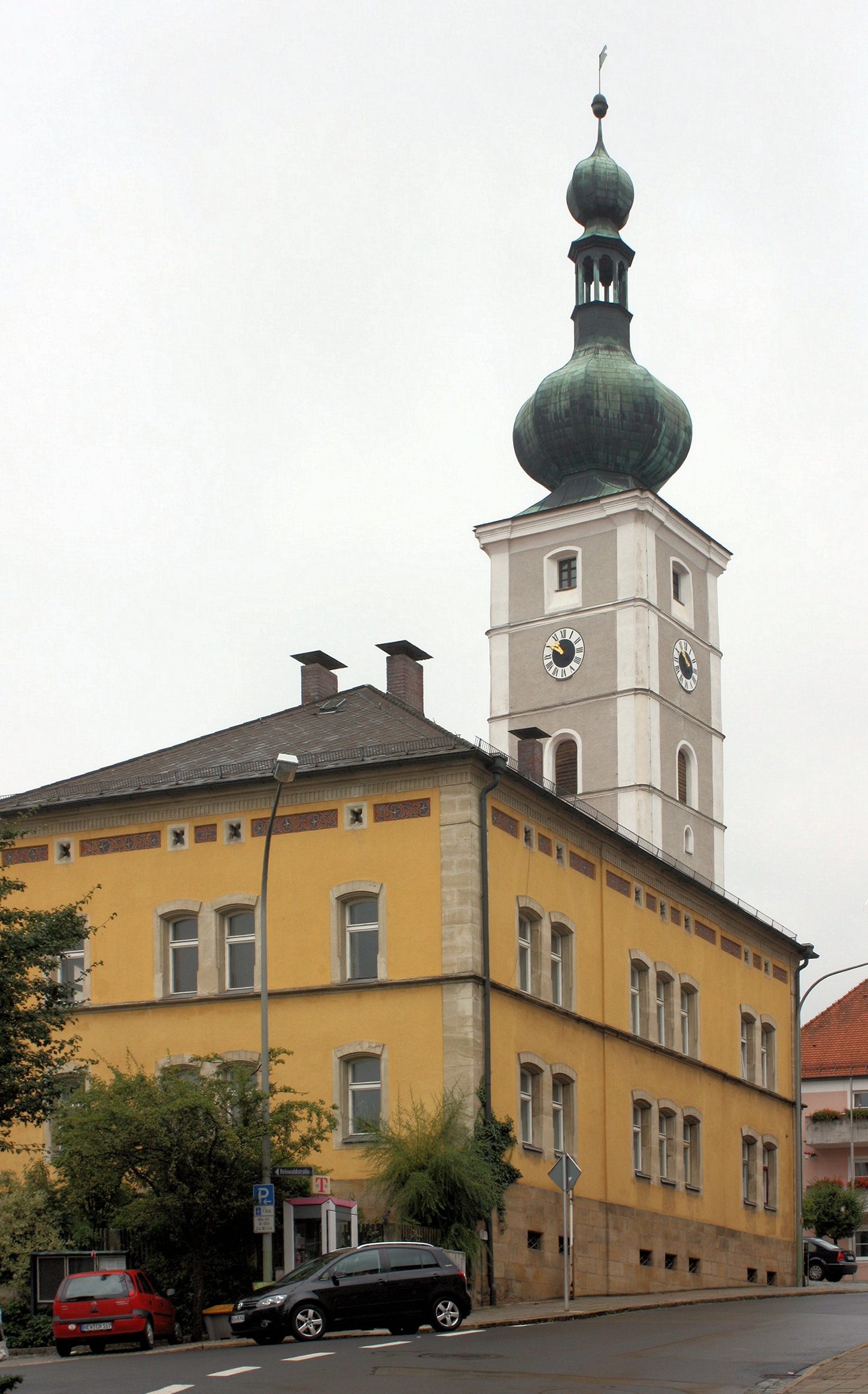 Pressath, the house Hauptstraße 9 and the church tower